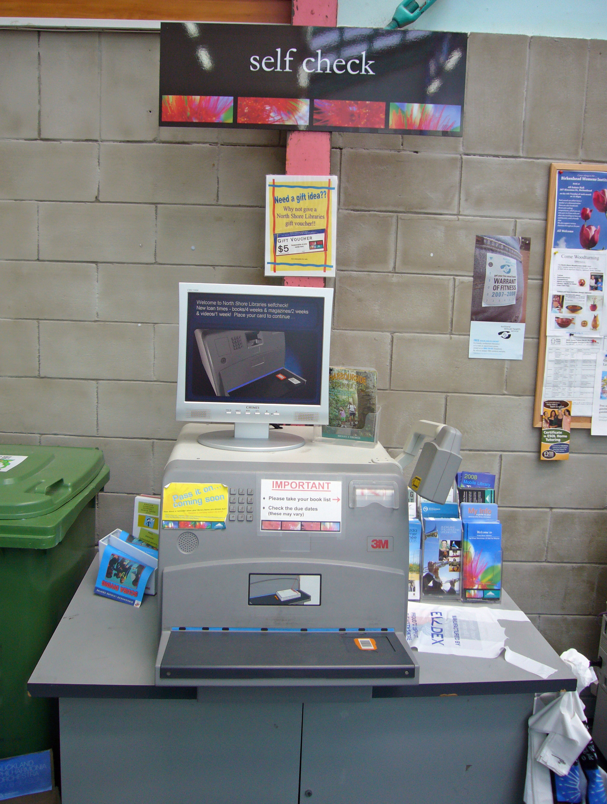 3M Self-issue machine at Birkenhead Public Library.